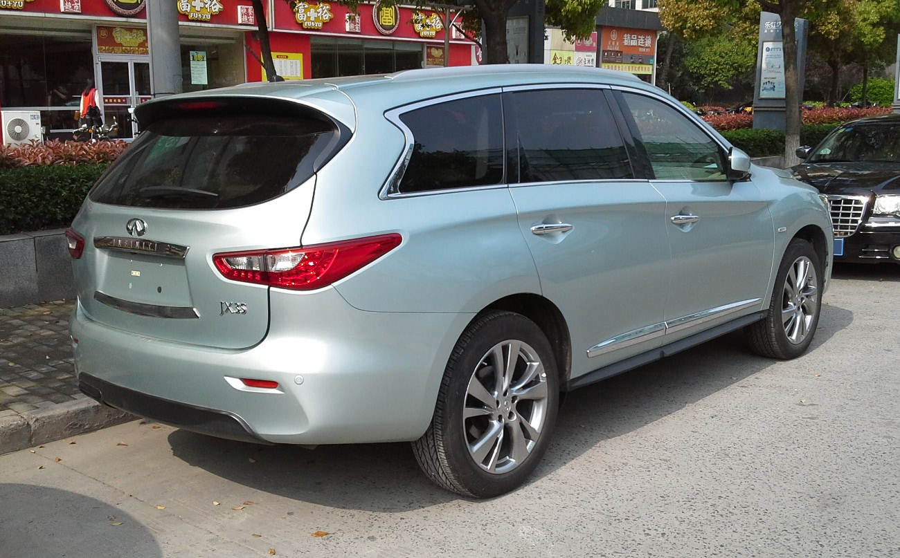 Infiniti JX photographed in Shanghai, China.